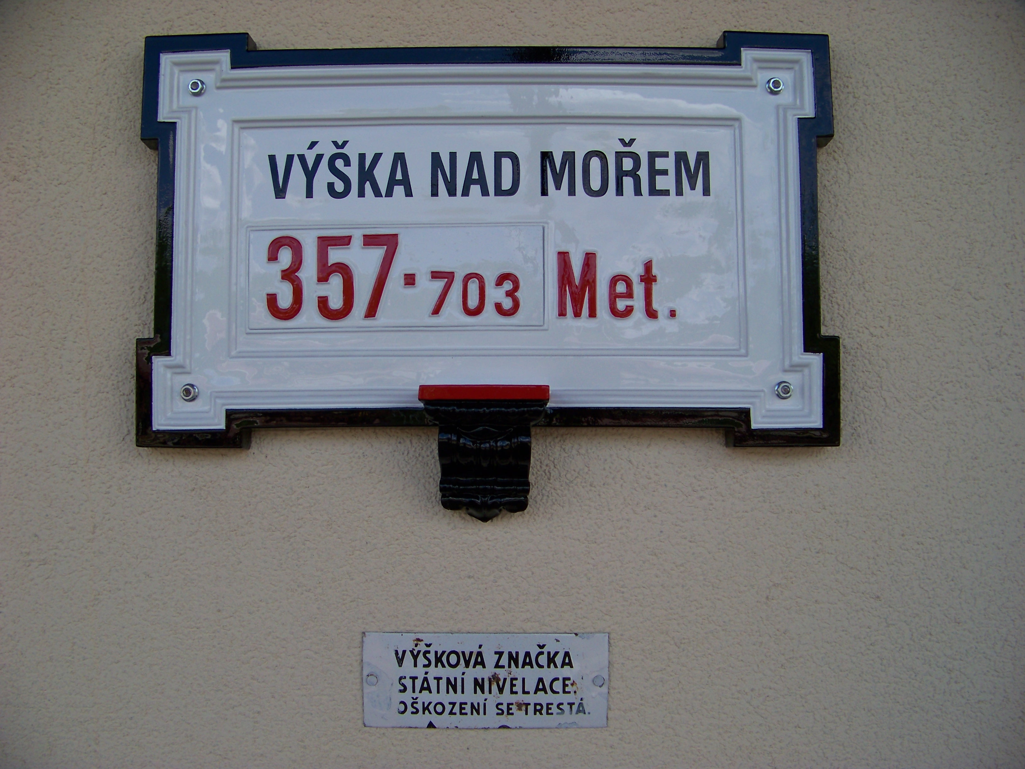 Hostivice, Prague-West District, Central Bohemian Region, the Czech Republic. Train station "Hostivice", a benchmark.